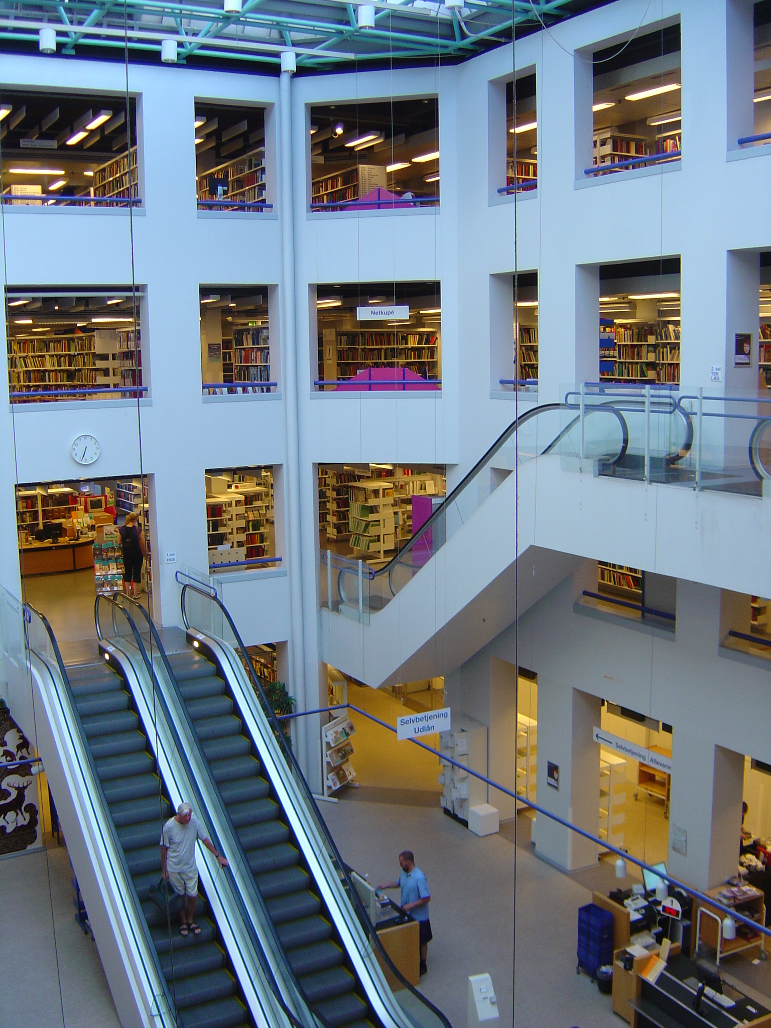 Københavns Hovedbibliotek - Inside the main library located on Krystalgade, that is part of Københavns Kommunes Biblioteker in Copenhagen. Seen from the northeastern corner of the library.